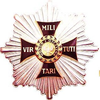 Grand Cross Star of Virtuti Militari Order. The Highest Military Order in Poland.First Class. Order Star. Official Pattern.